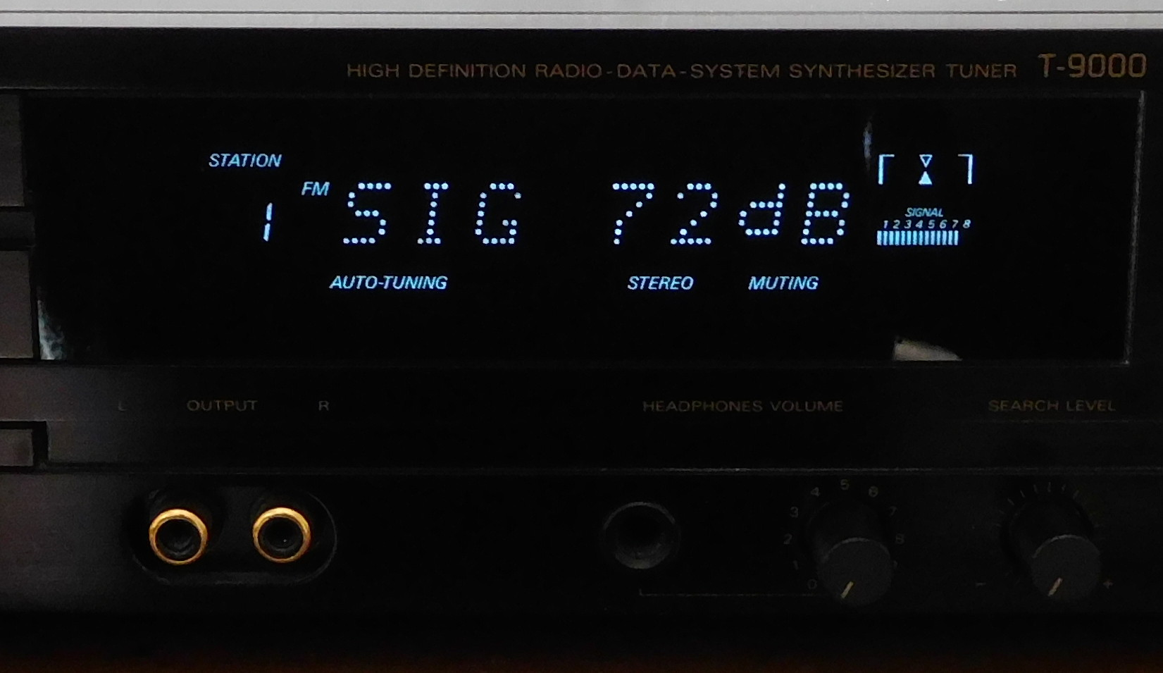 Dot-matrix display to indicate in this case the field strength (in this case 72 dB µV, corresponding to an aerial input voltage of approx. 4 mV, according to the user manual) of a RDS FM/AM tuner (1991 Grundig Fine Arts T-9000).